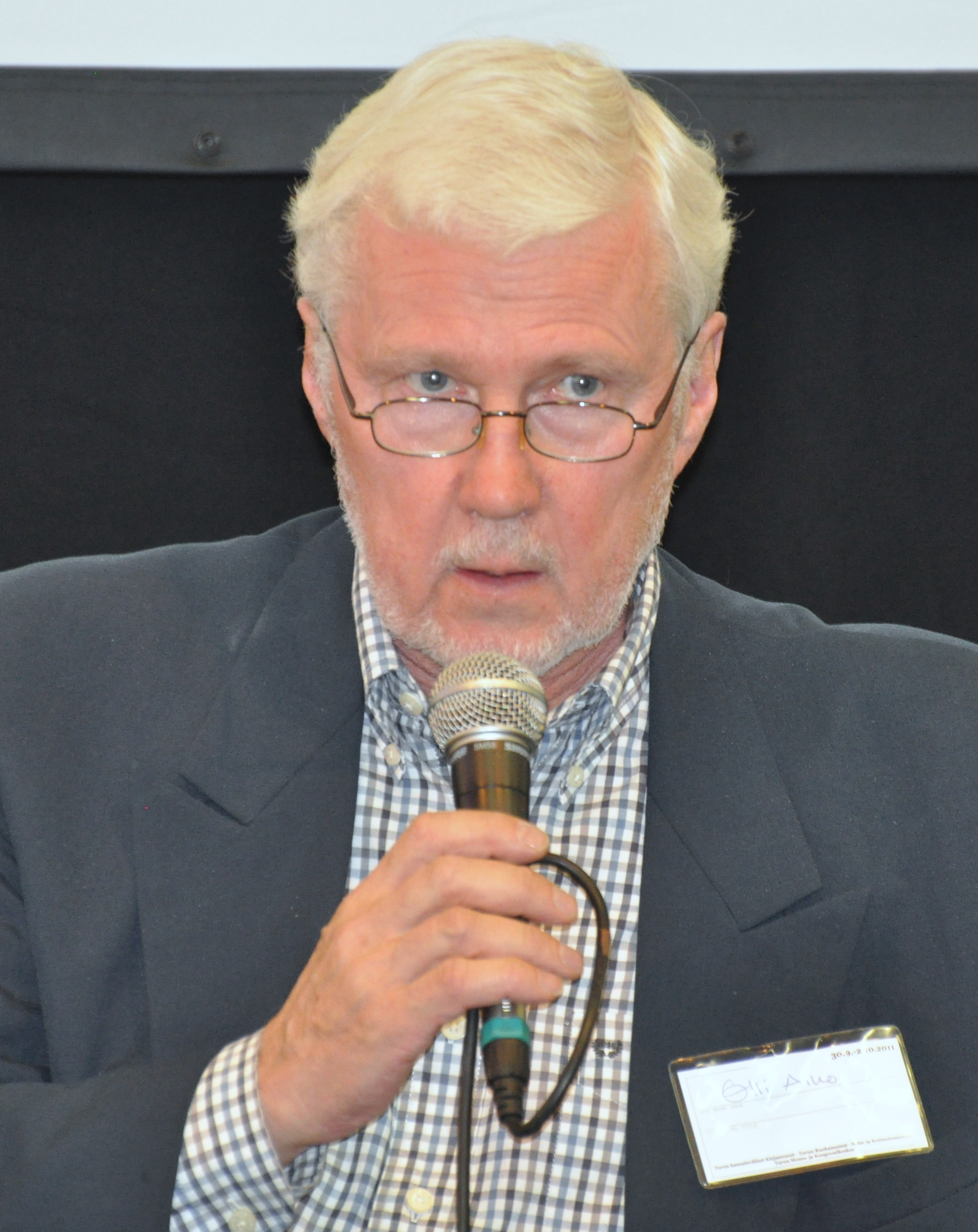 Finnish professor Olli Alho at Turku Book Fair, 2011.